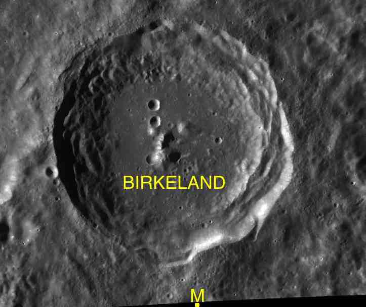 Part of the chart LAC-104 used for the presentation